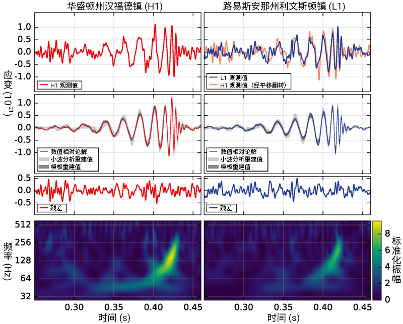 LIGO measurement of gravitational waves. Shows the gravitational wave signals received by the LIGO instruments at Hanford, Washington (left) and Livingston, Louisiana (right) and comparisons of these signals to the signals expected due to a black hole merger event.